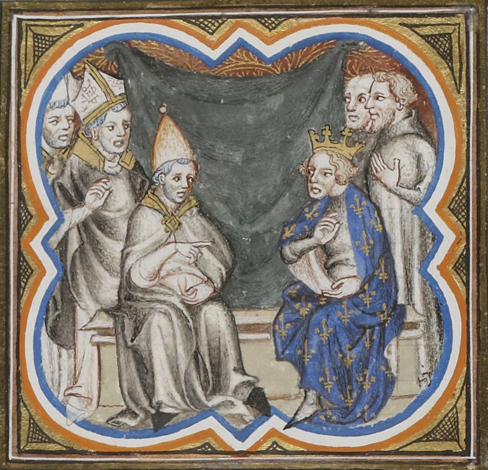 The Meeting of Pope Paschal II and King Phillip I, from the Grandes Chronicles de France in the year 1107.